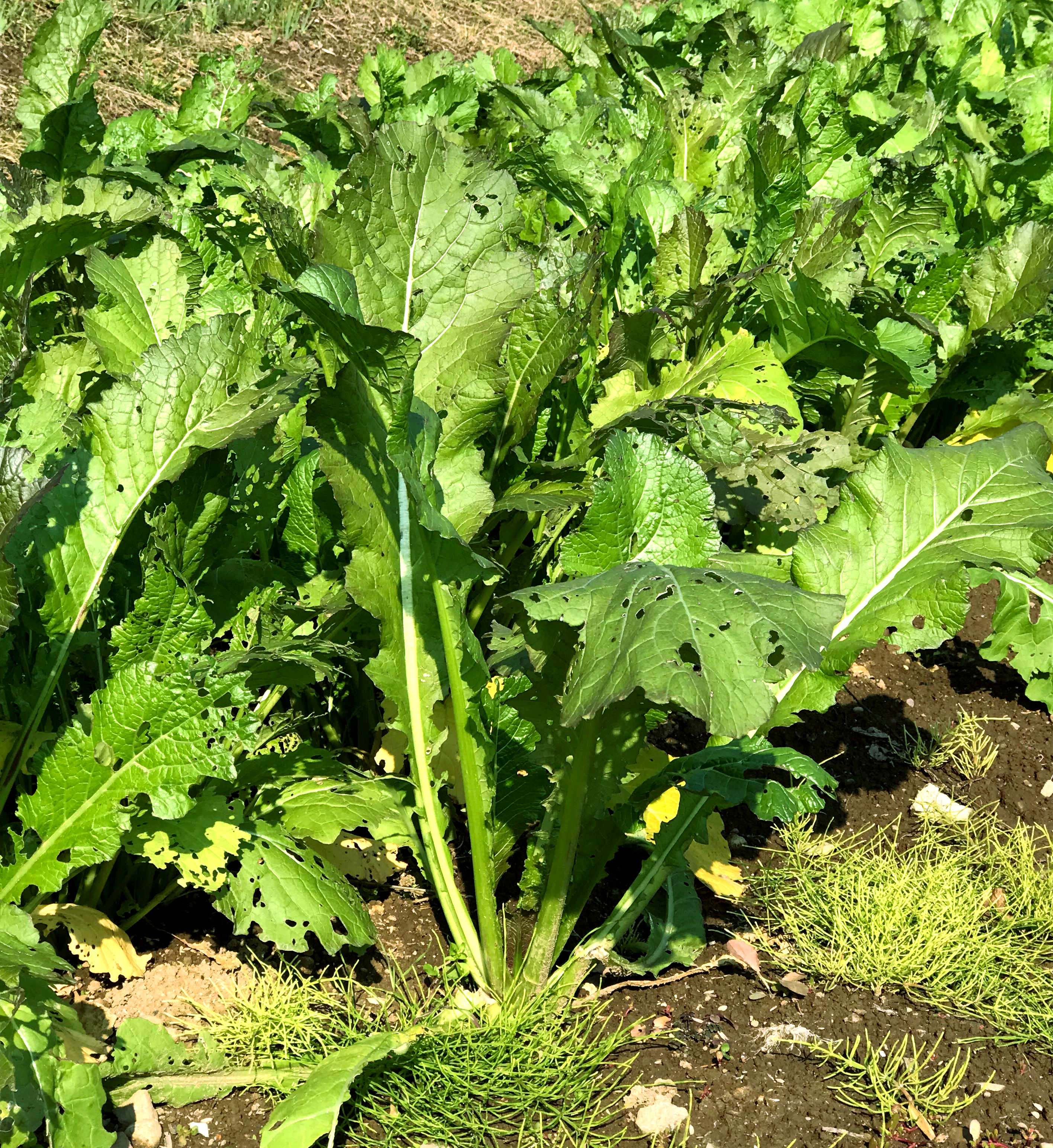 The nozawana a harvest approached.